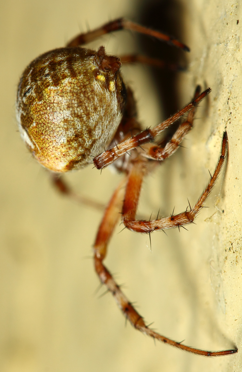 Labyrinth Orb-weaver photographed with a Canon EOS 50D and Canon 100mm macro lens at ISO 160, F10, 1/4000 sec, and Canon 580ex speedlite.